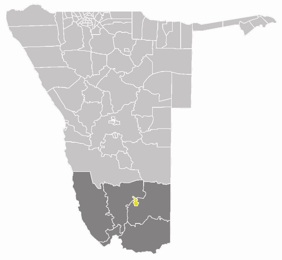 map of the Keetmanshoop Urban constituency within the Karas region, Namibia